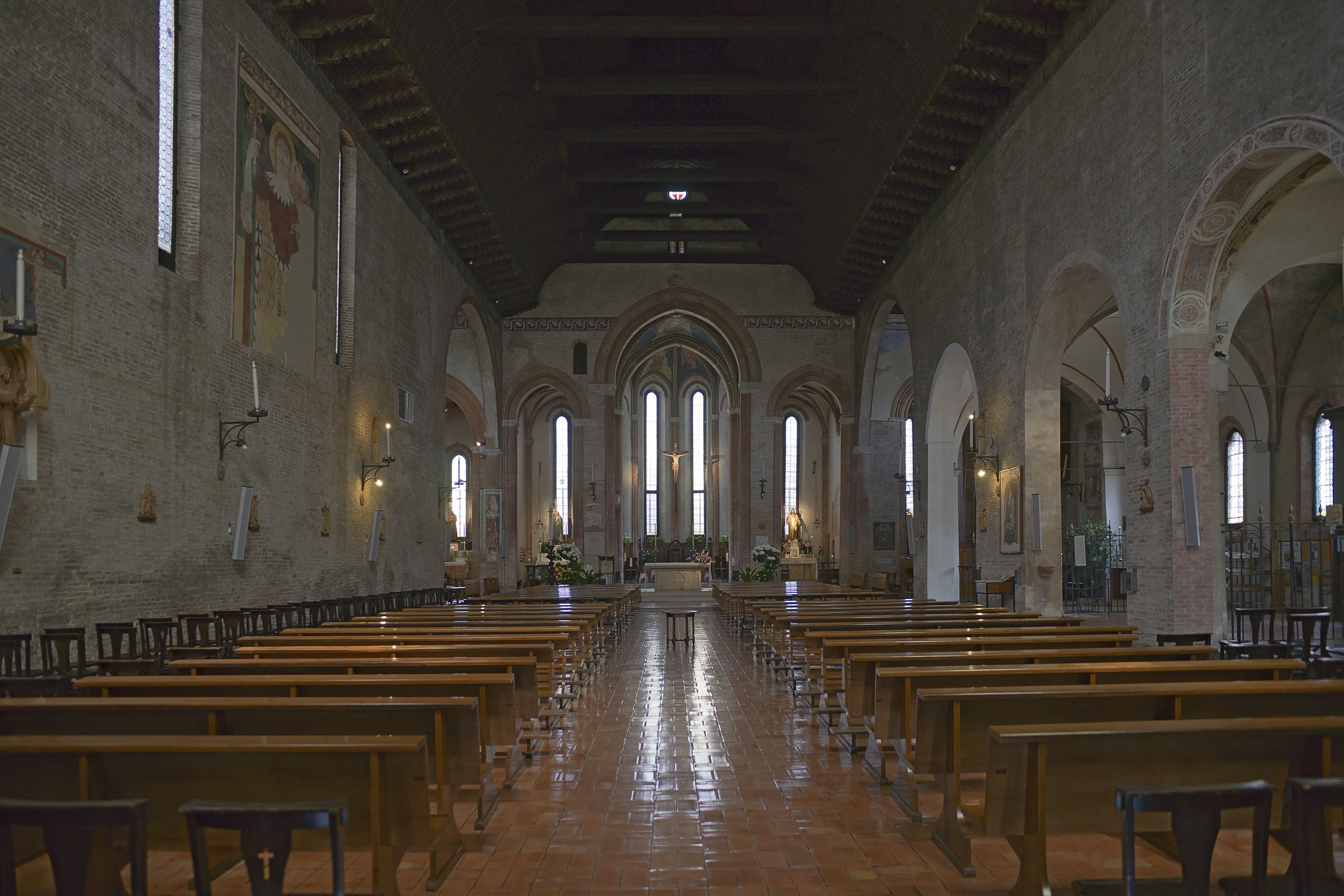 Church Convent San Francesco of TrevisoTreviso